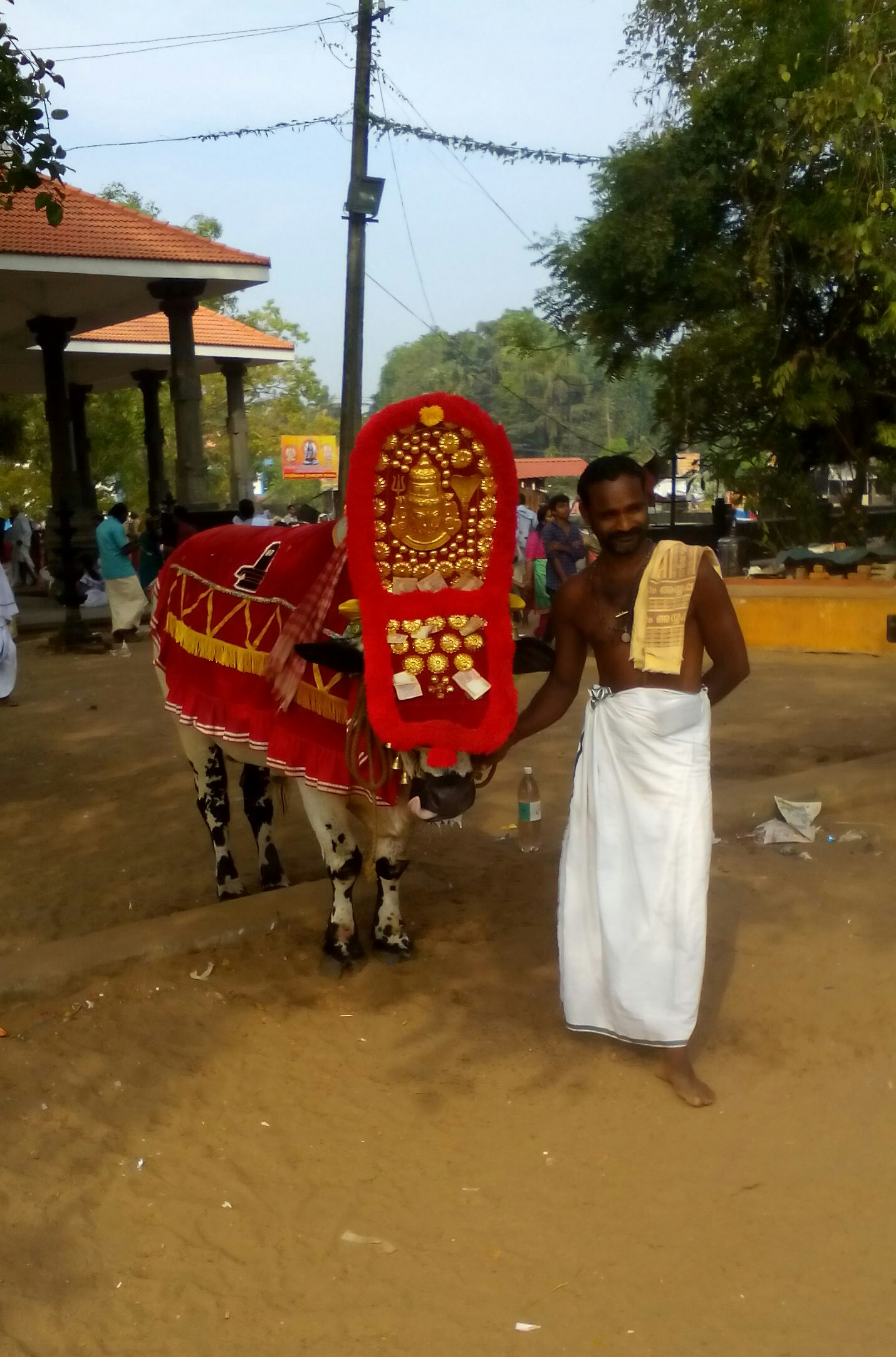 Holy animal being worshipped